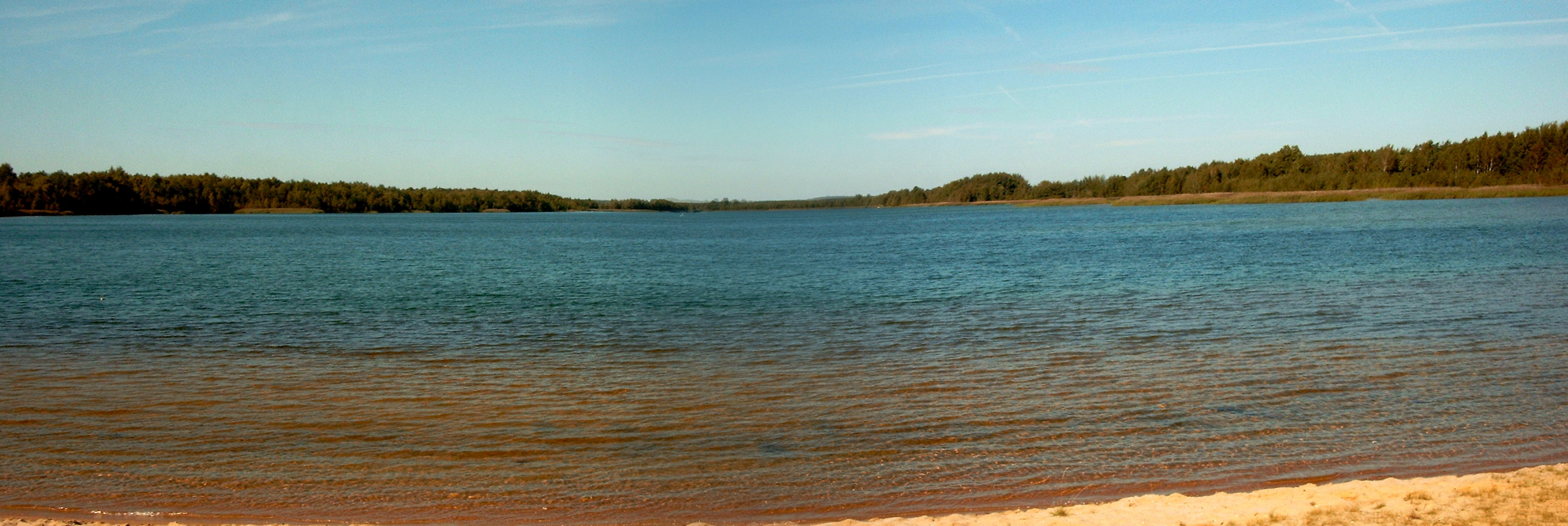 View on Halbendorfer See from Trebendorf.